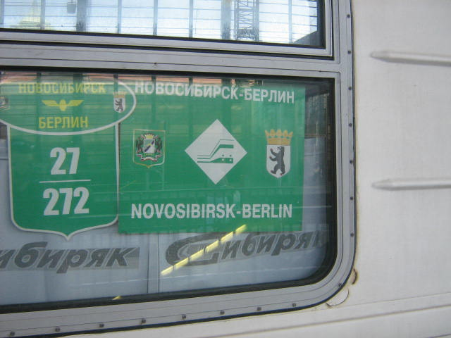 Logo of Sibirjak express departing from Berlin Zoologischer Garten railway station